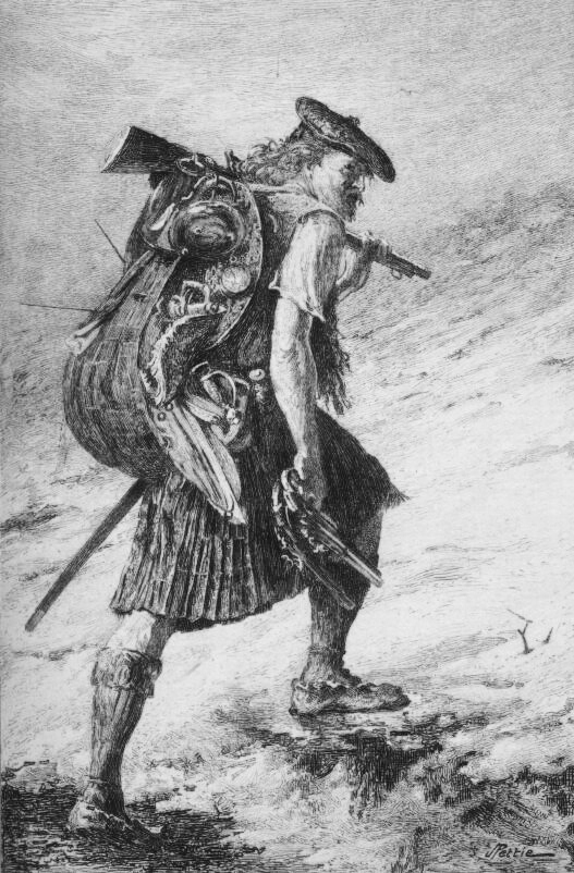 "Disbanded". Illustration to Walter Scott's novel Waverley, engraving after a painting by John Pettie, as found in 1893 illustrated print edition now available on Project Gutenberg and elsewhere on the web.